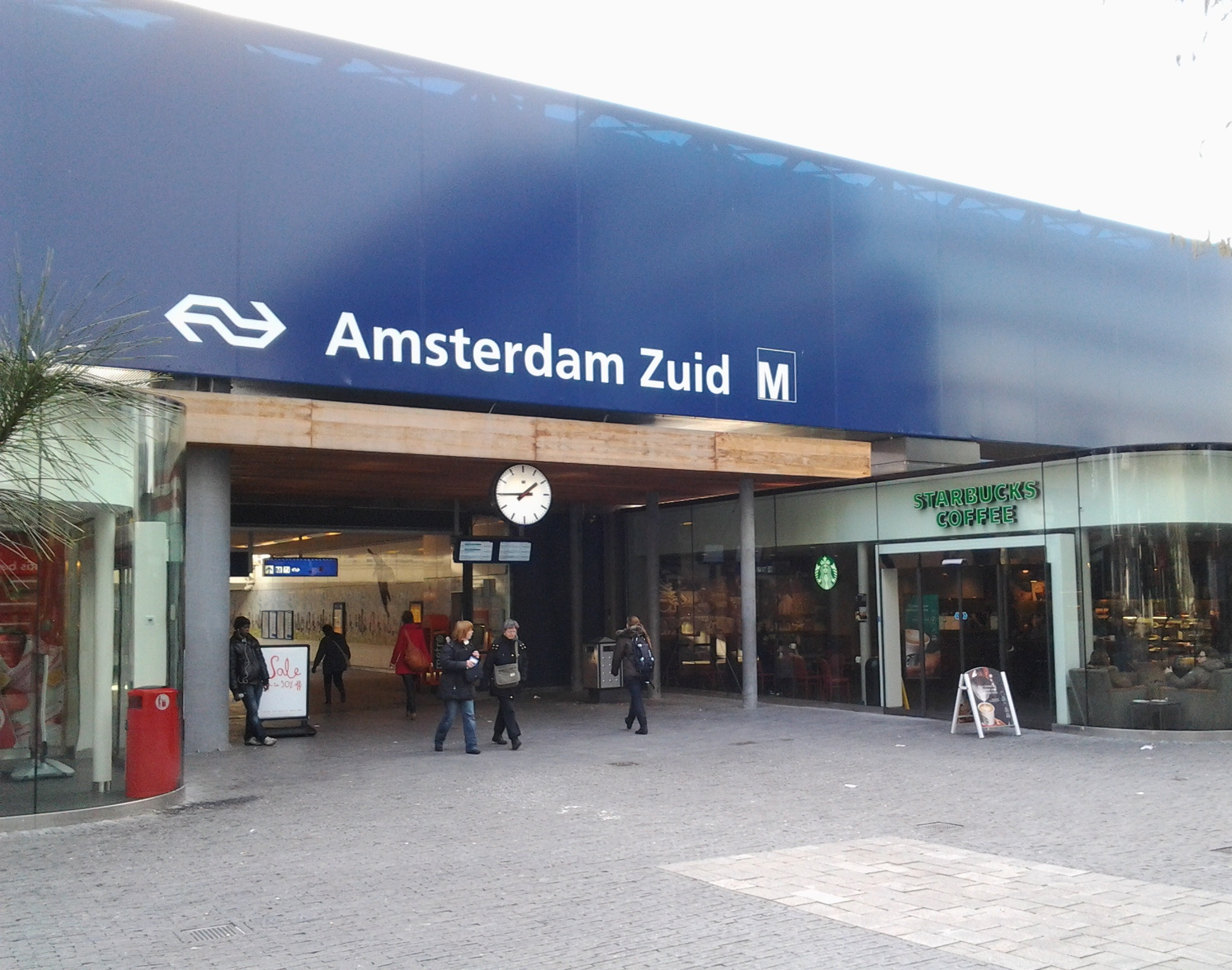 Railway station "Amsterdam Zuid", entrance Zuidplein (WTC Amsterdam)